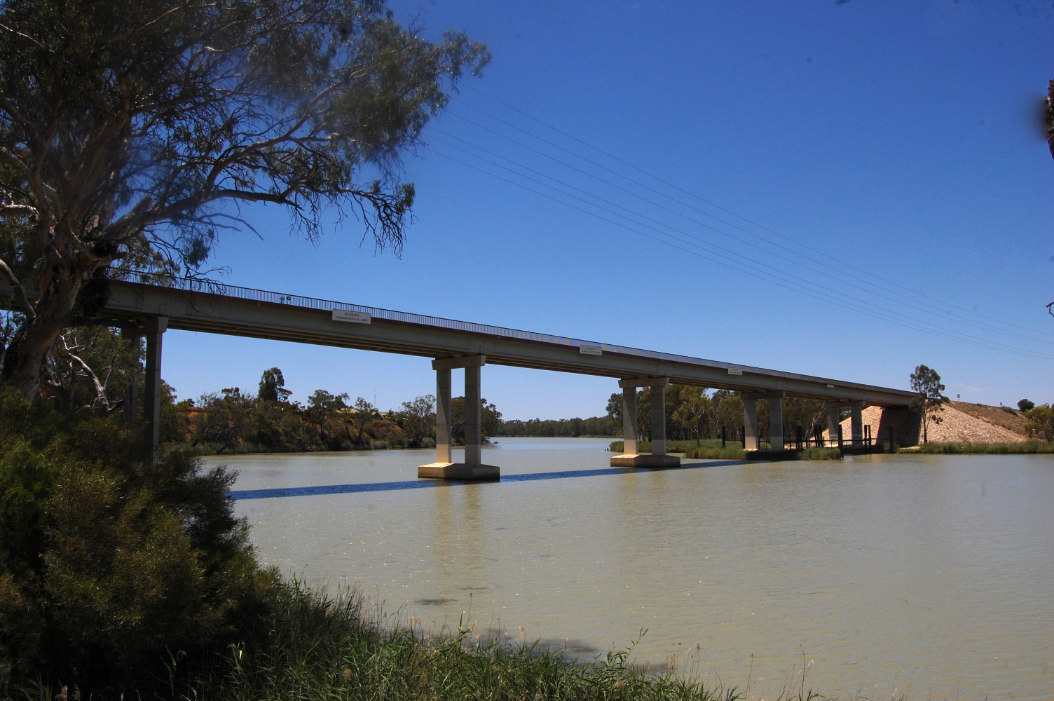 Bridge over the Murray River at Kingston-On-Murray, South Australia